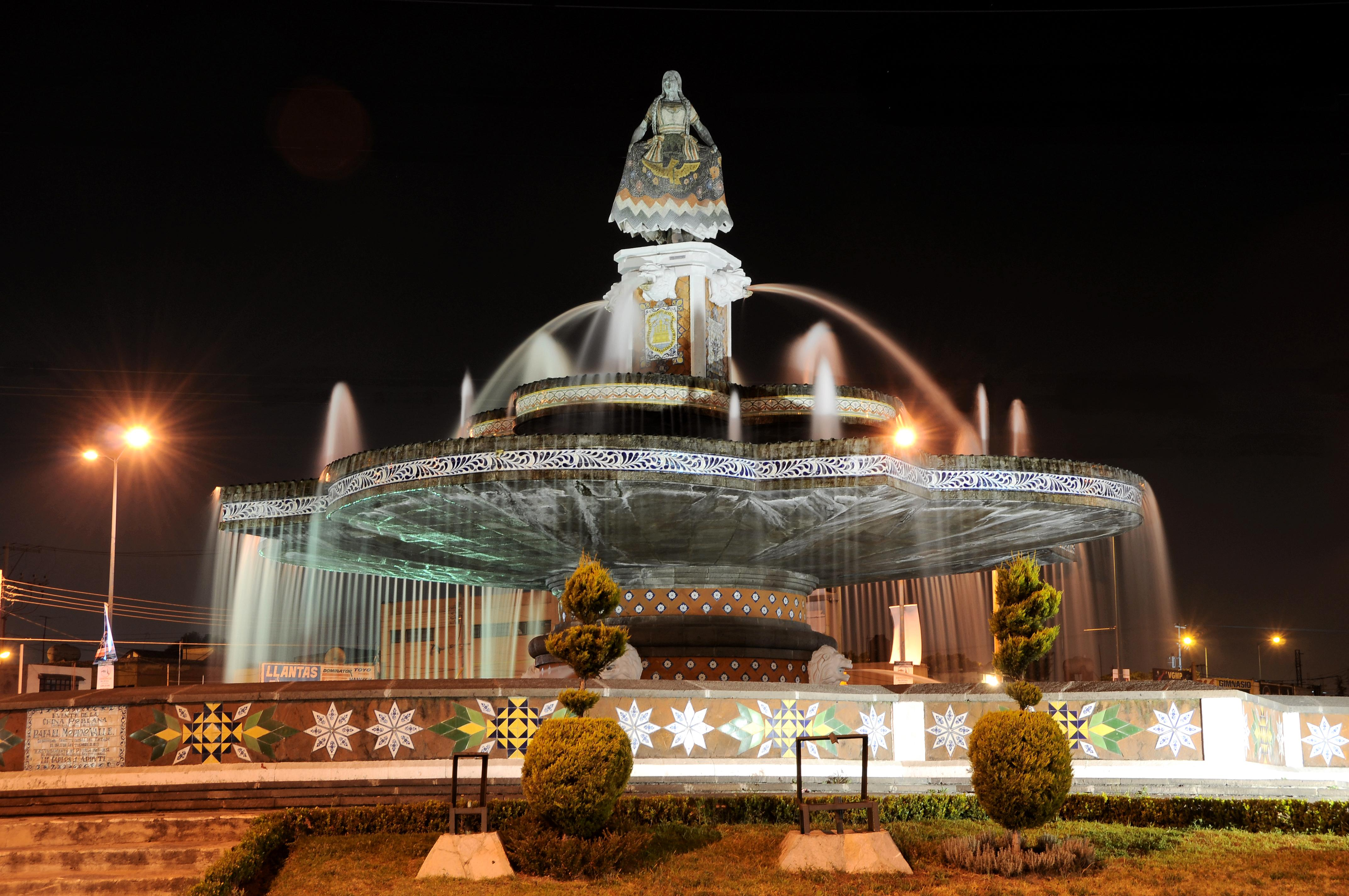 Fuente de La China Poblana